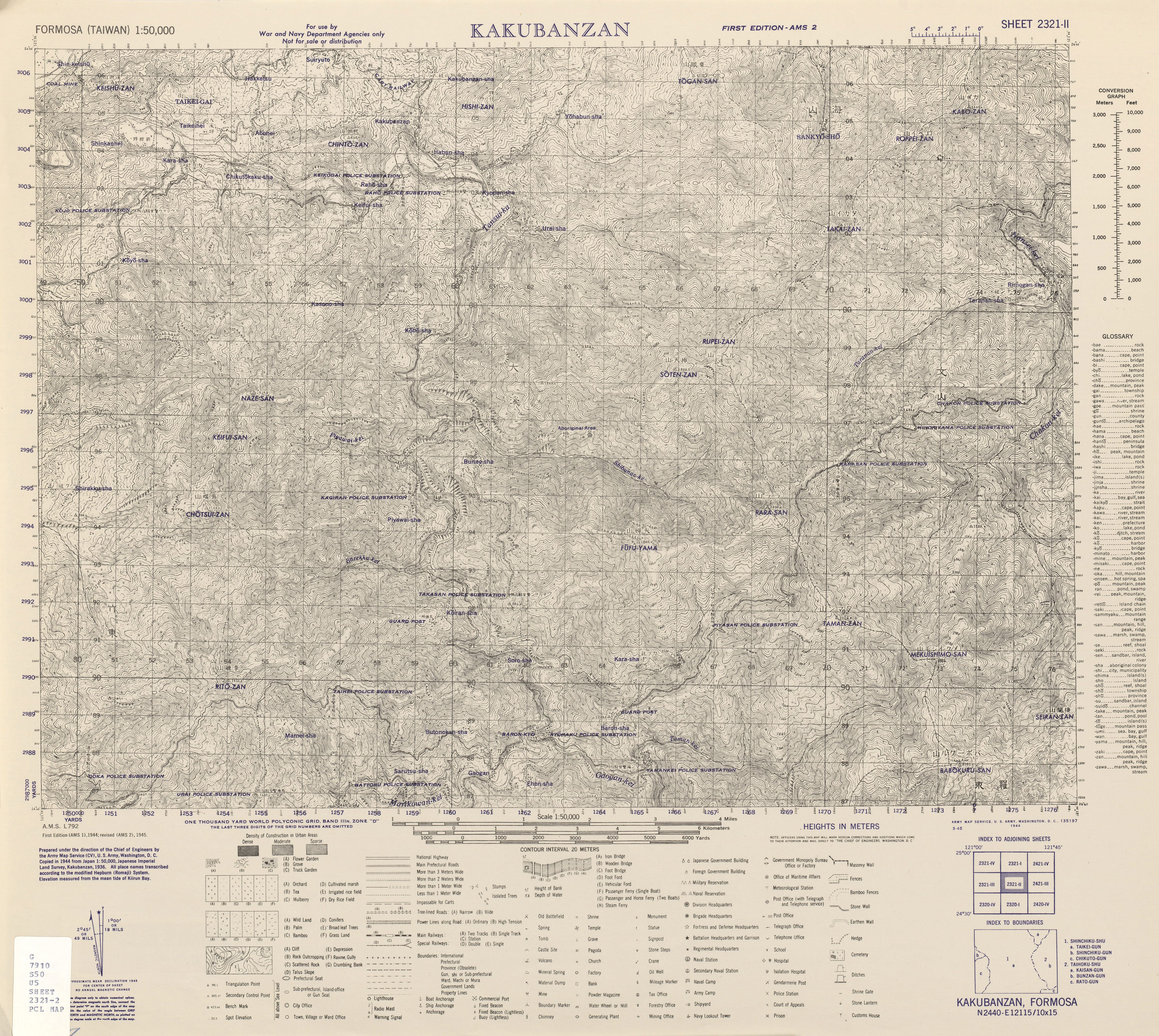 Map from Formosa (Taiwan) 1:50,000 AMS Series L792